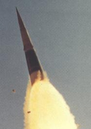 Sprint Antiballistic Missile